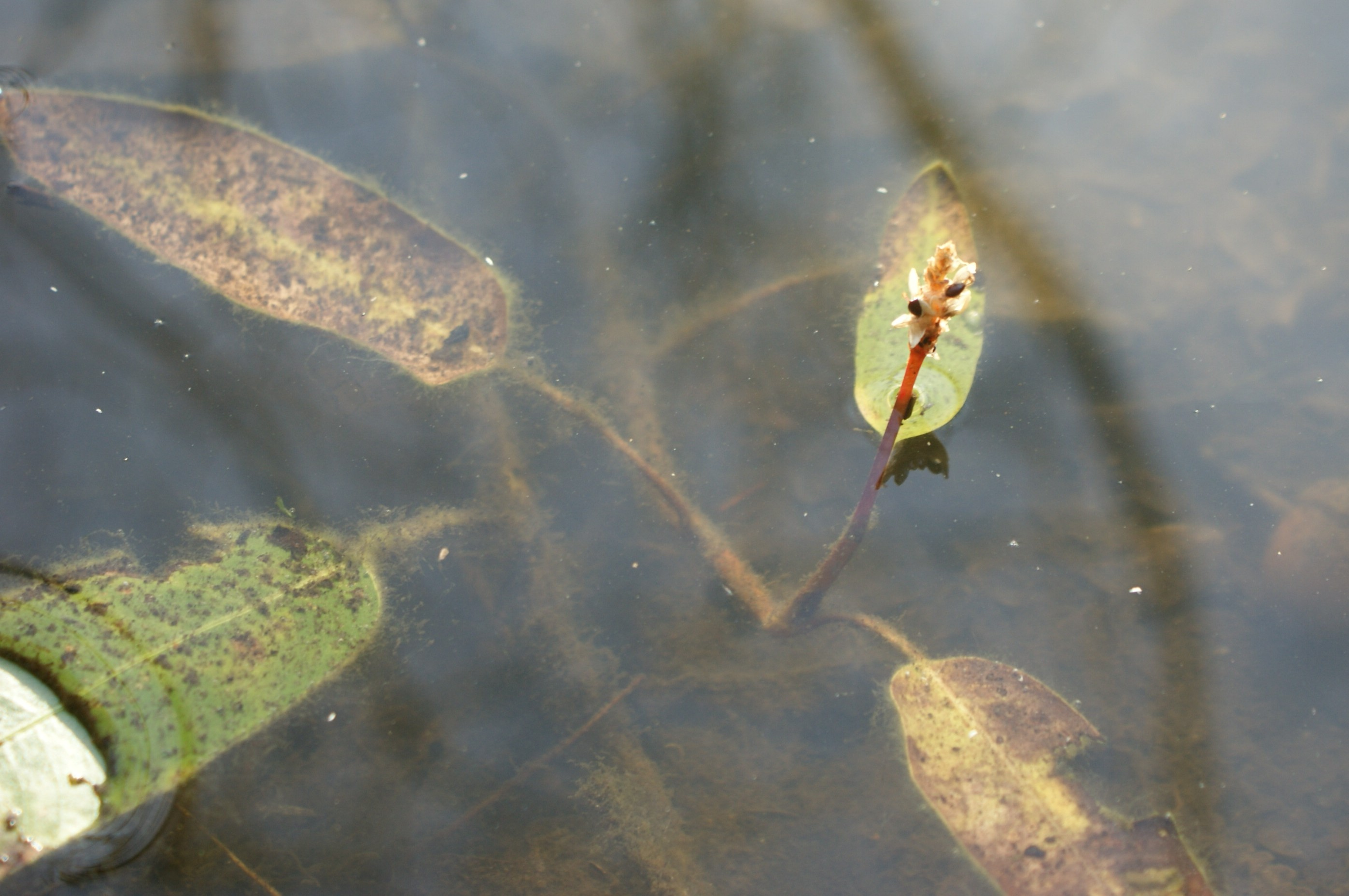 Persicaria amphibia, fruiting